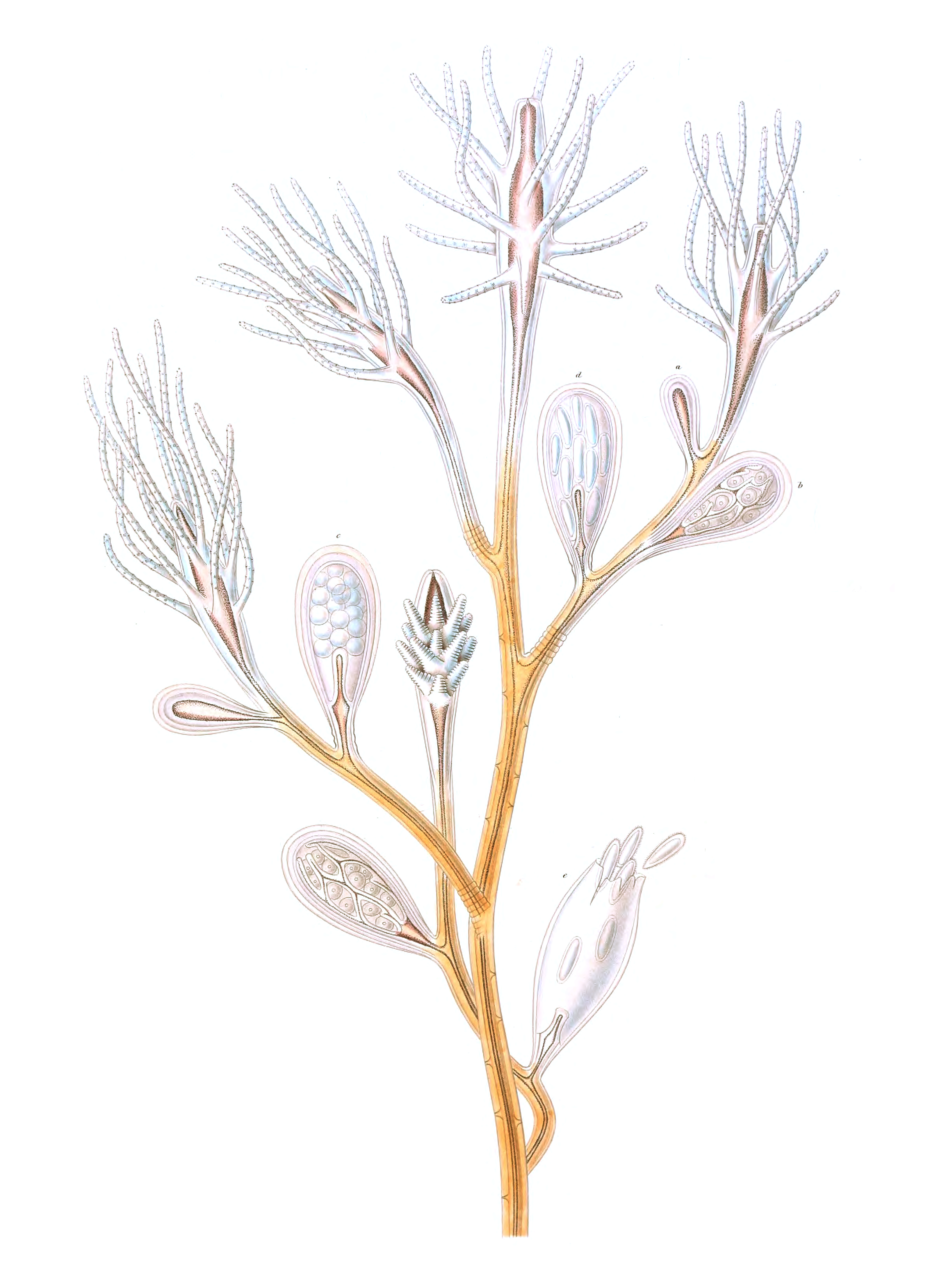 Cordylophora caspia (=Cordylophora lacustris; Hydrozoa: Anthoathecatae: Filifera: Oceaniidae), a portion of a female colony: a – very young gonophore; b – gonophore more advanced, containing ova, which are embraced by the branches of a ramified spadix, and have their germinal vesicles distinct; c – gonophore still further advanced; the ramifications of the spadix have disappeared, and the segmentation of the vitellus has been completed in the ova; d – further stage of development, in which the ova have become planulae, and are ready to escape from the gonophore; e – the gonophore has become ruptured at the summit, and the ciliated planulae are escaping into the surrounding water.